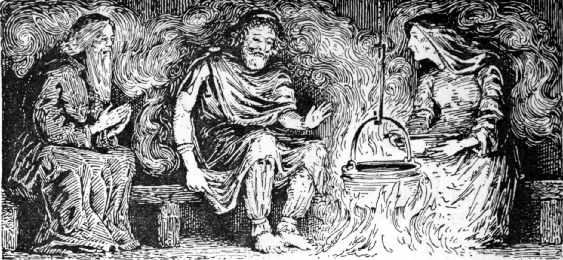 An illustration to Rígsþula. The list of illustrations in the front matter of the book gives this one the title Rig in Great-grandfather's Cottage.